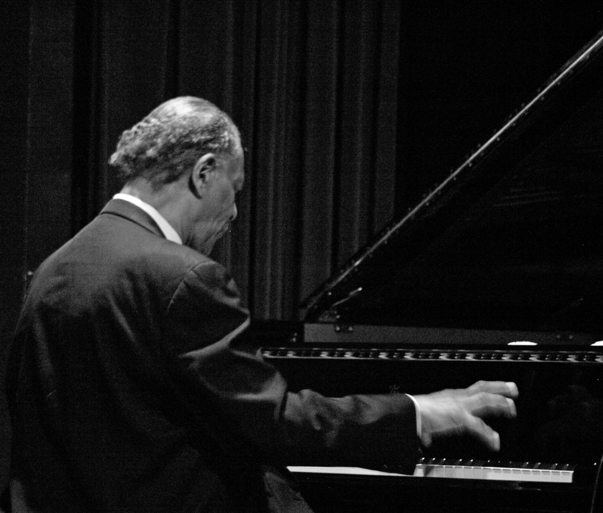 Jazz pianist McCoy Tyner performs at Yoshi's Oakland (Calif.) on Dec. 30, 2009.